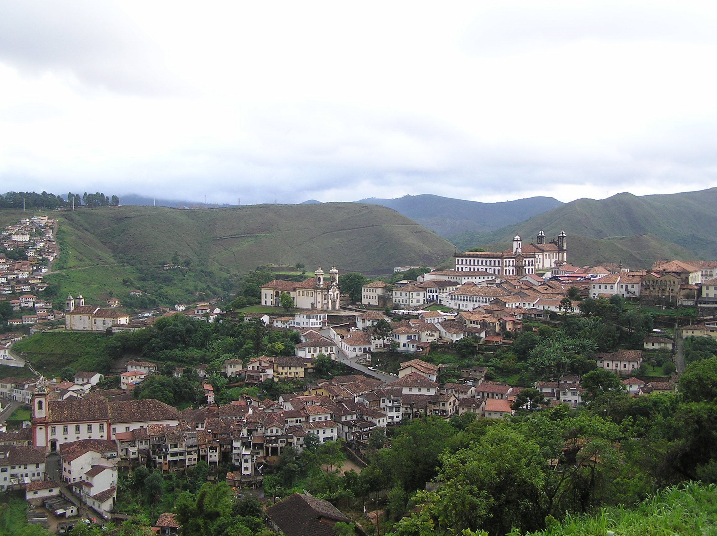 View of Ouro Preto Left end-near side: Igreja da Conceução(left side) Left end-center: Igreja das Mercês e Perdões(rear view) Center: Igreja de São Francisco de Assis right: Museu da Inconfidência(has one belfry), the state public office building of Minas Gerais before right end: Igreja do Carmo(rear view, and has two belfries)